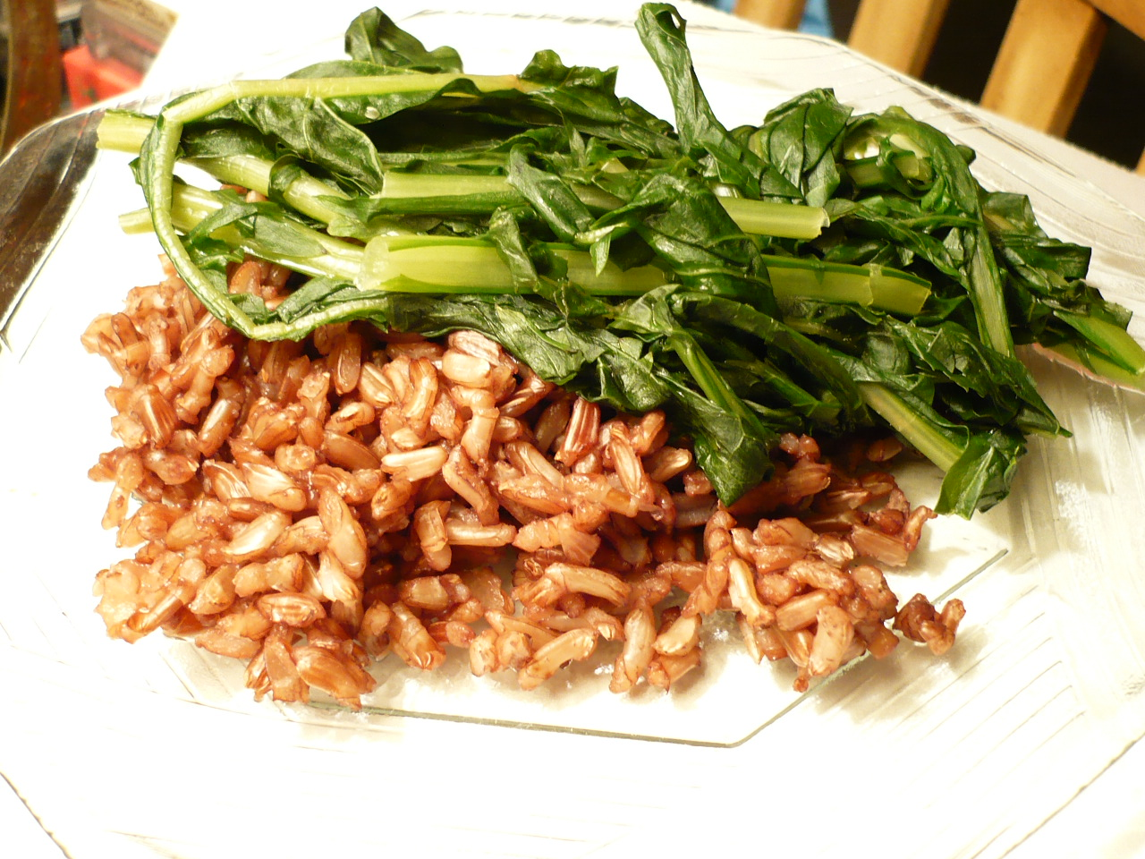 A plate of Wehani rice, with sauteed dandelion greens. Photo taken in Kent, Ohio with a Panasonic Lumix digital camera (model DMC-LS75).